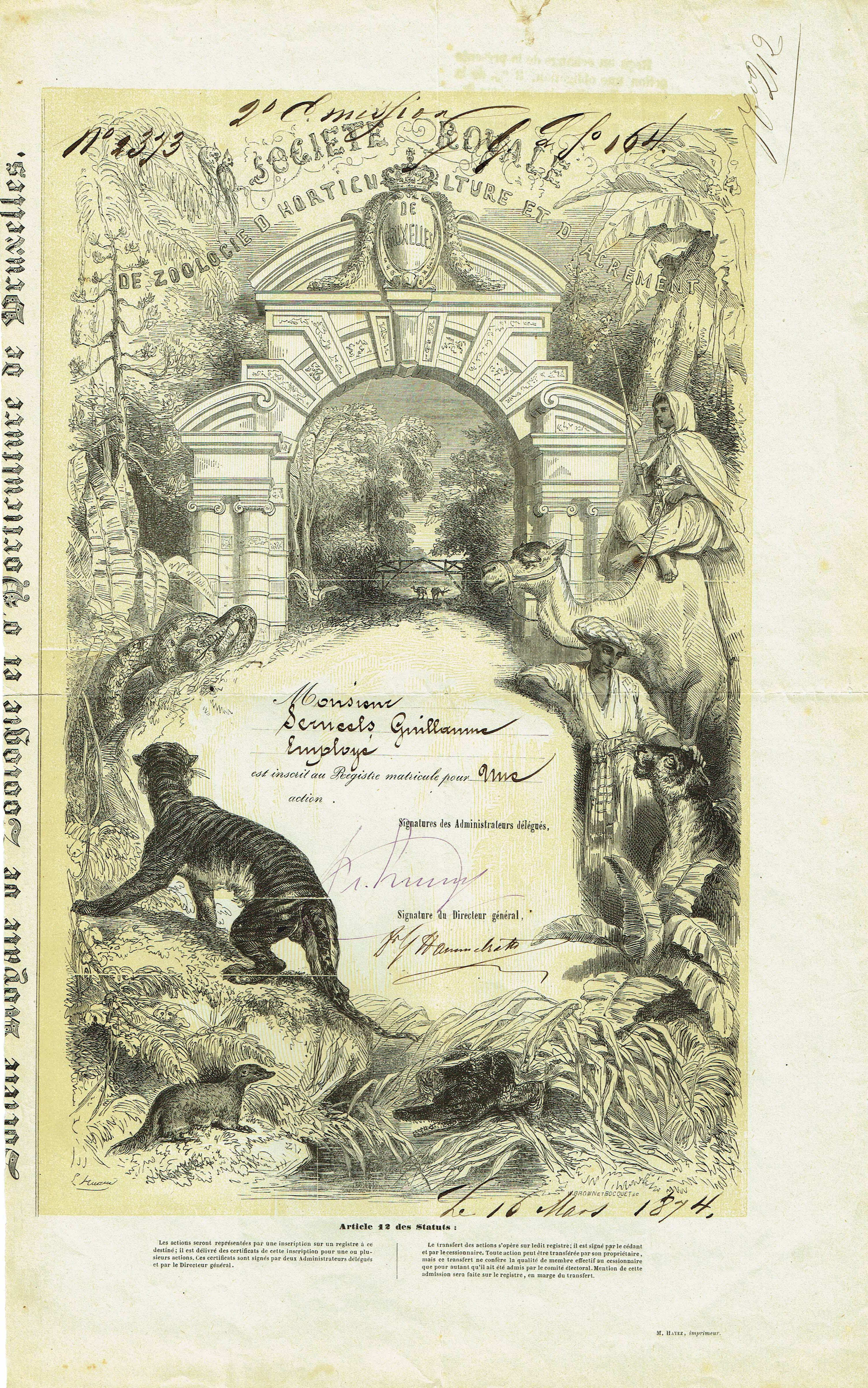 Share of the Société royale de Zoologie, d’Horticulture et d’Agrément, issued 16. March 1874